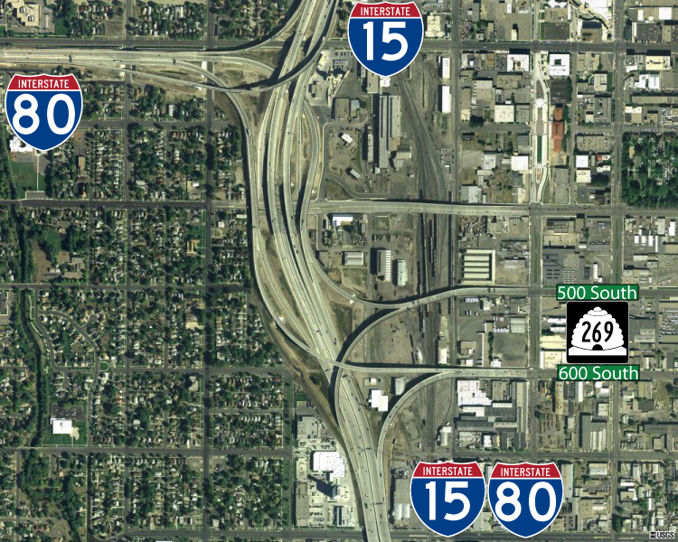 Aerial image of the western terminus of State Route 269 in Utah